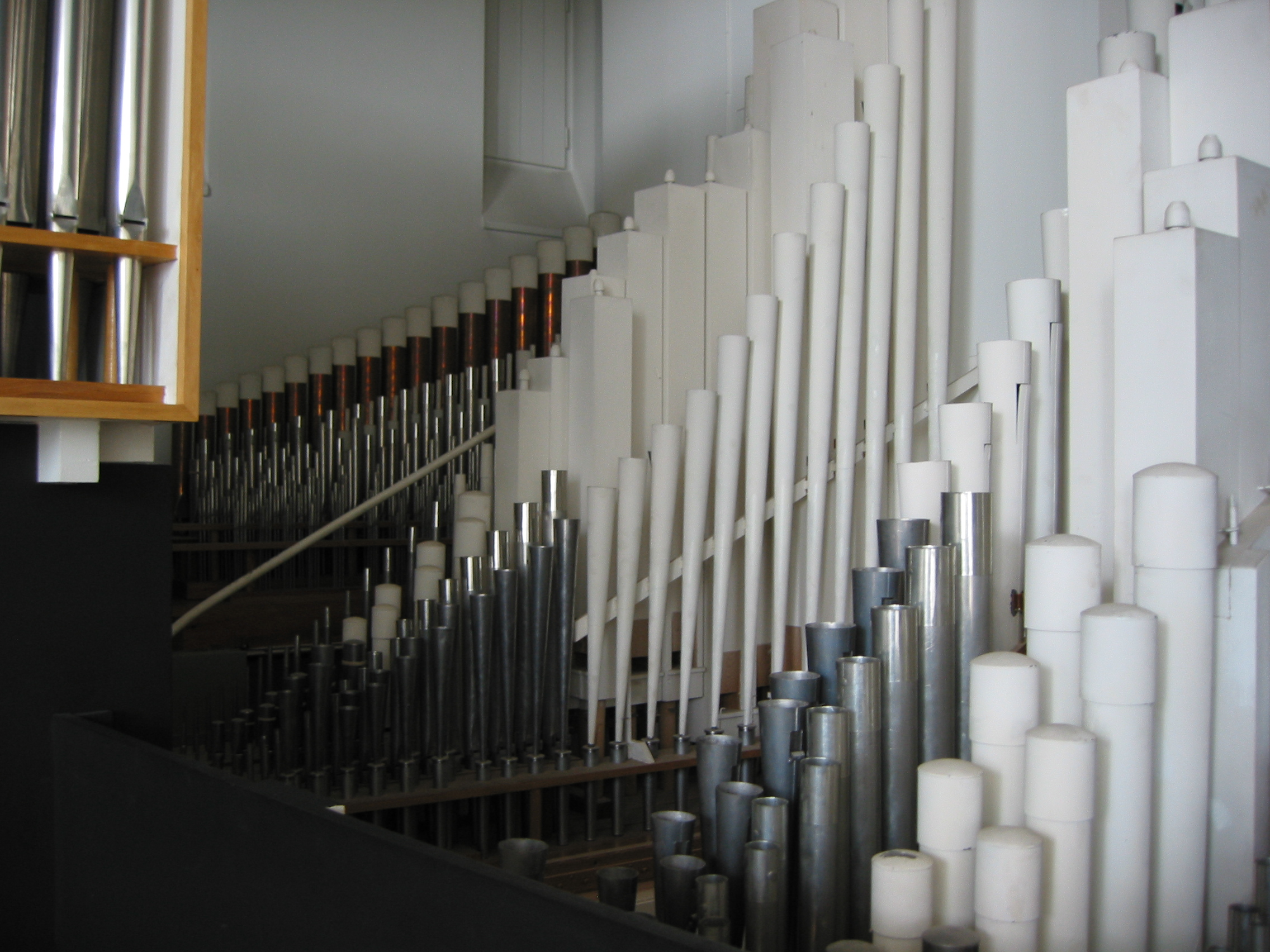 Organ pipes at Lakeuden risti Church in Seinäjoki, Finland